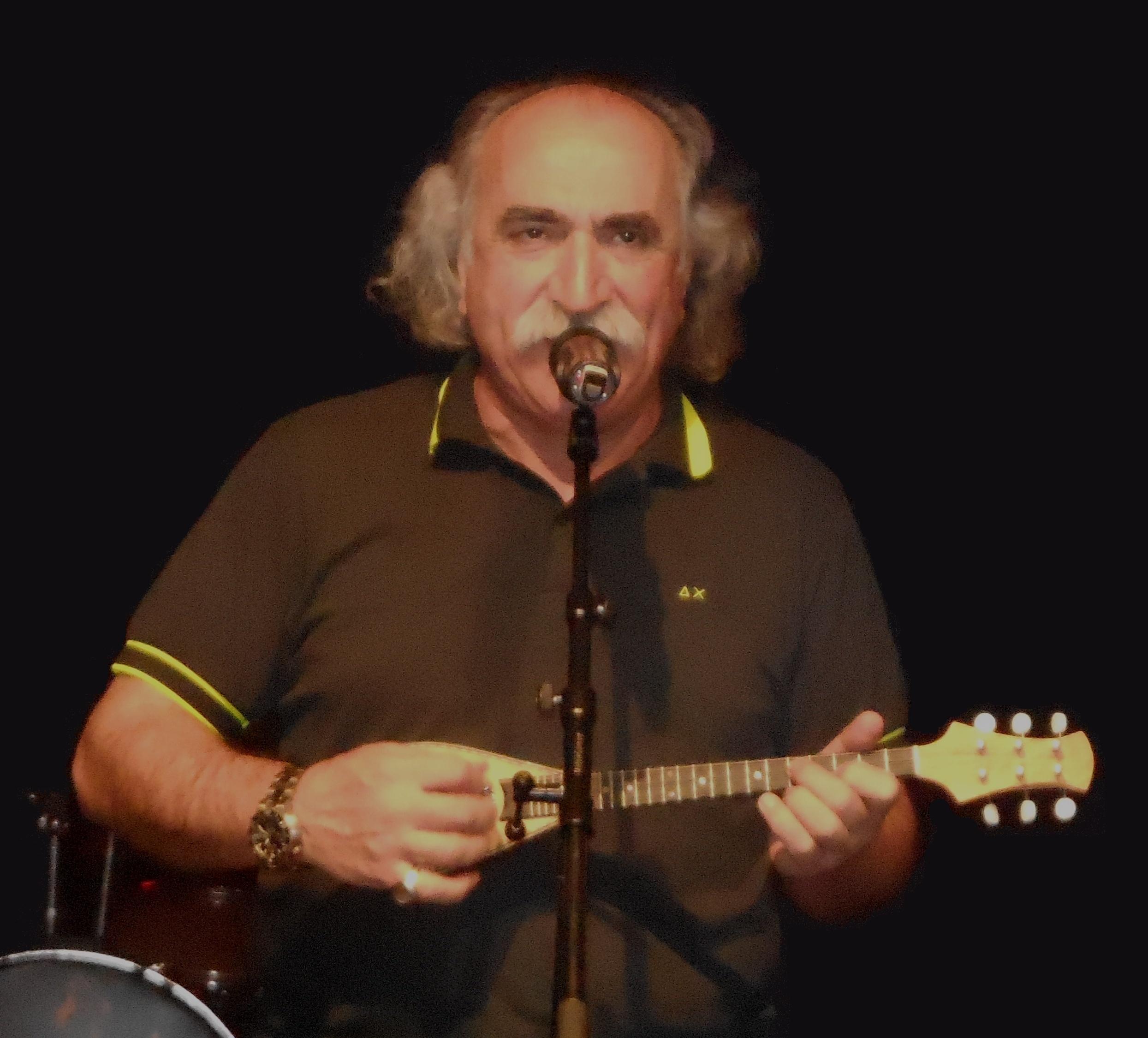 The Greek Eurovision contestant live at the Euro Fan Café, Moriska Paviljongen, Folkets Park, Malmö.